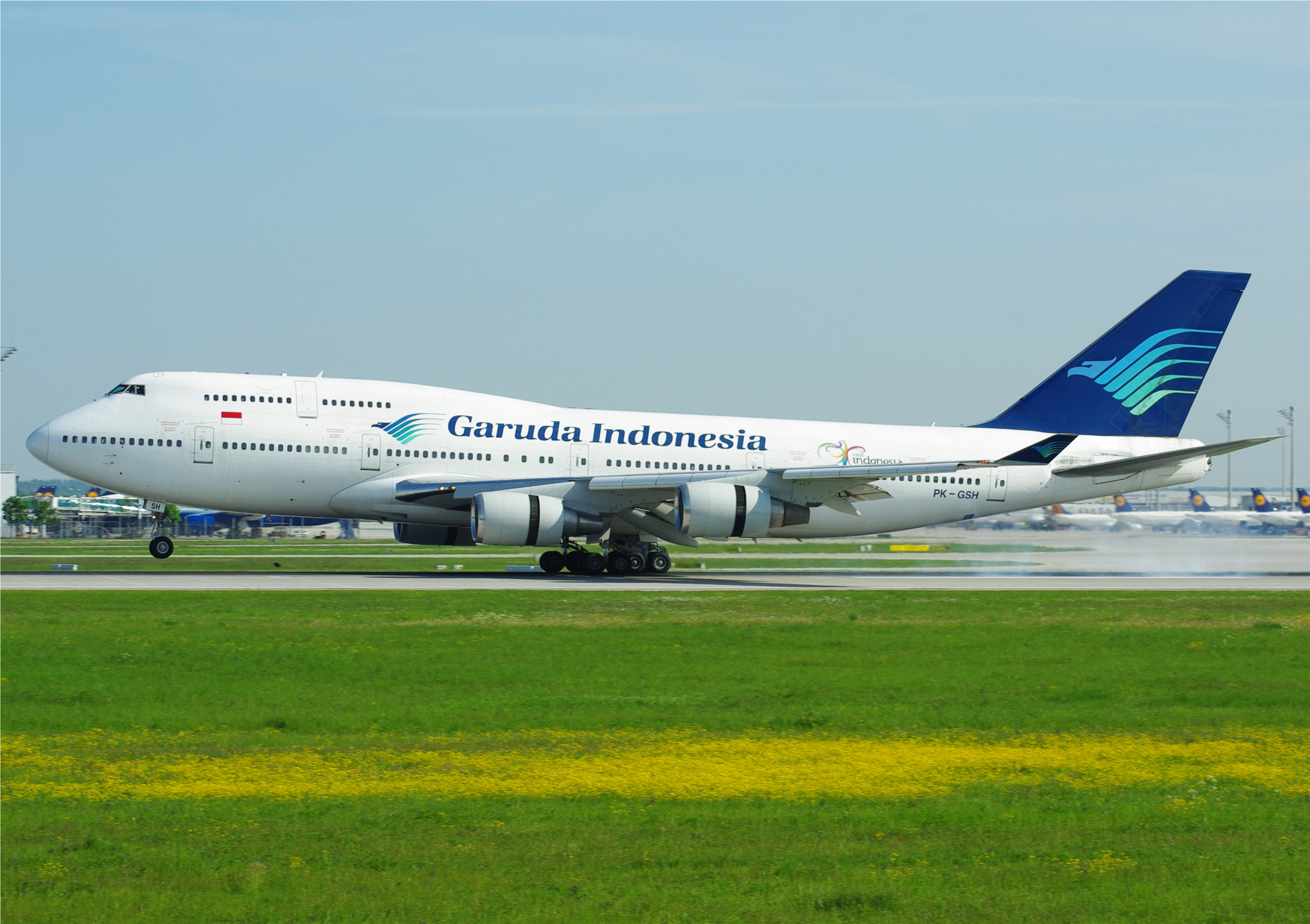 Garuda Indonesia B747-400 PK-GSH